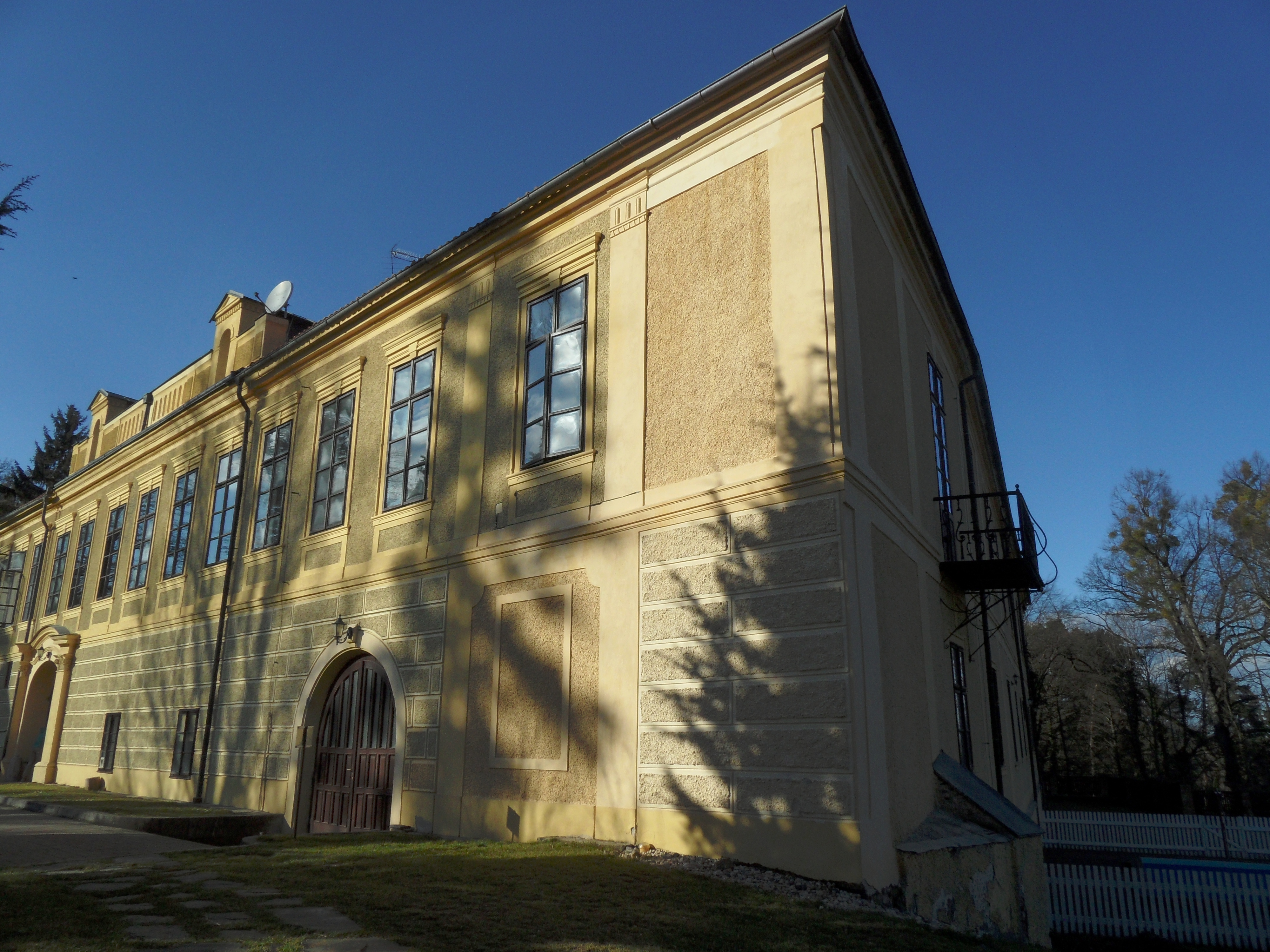 Hostačov (Skryje) C. Chateau Hostačov: View from South-East, Havlíčkův Brod District, the Czech Republic.